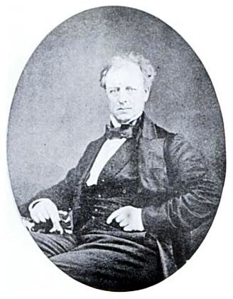 William Porter. Liberal Cape politician and architect of the Cape Colony constitution.